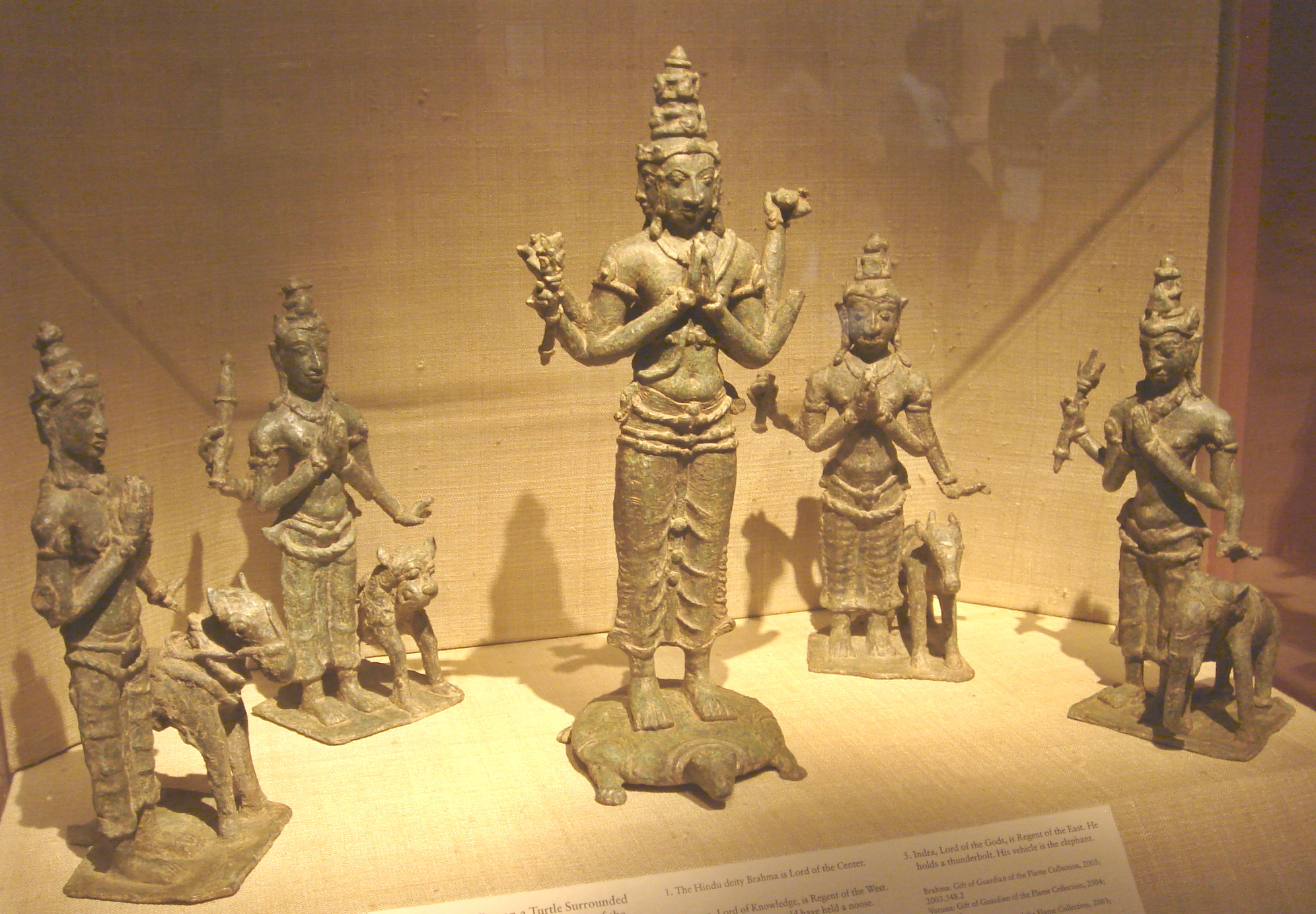 Brahma standing on a turtle in the center, surrounded by the four Lokapalas, guardians of the Cardinal directions, Anuradhapura Period, Sri Lanka, 9th century. Brahma is Lord of the center. (from the left) Varuna, the Lord of the West and knowledge, with his mount, a horse. Kubera, the Lord of the North and wealth, carrying a mace and with a lion. Yama, the Regent of the south and Lord of death, with a bull. Indra, the Lord of the East and heaven with an elephant, holding a thunderbolt.